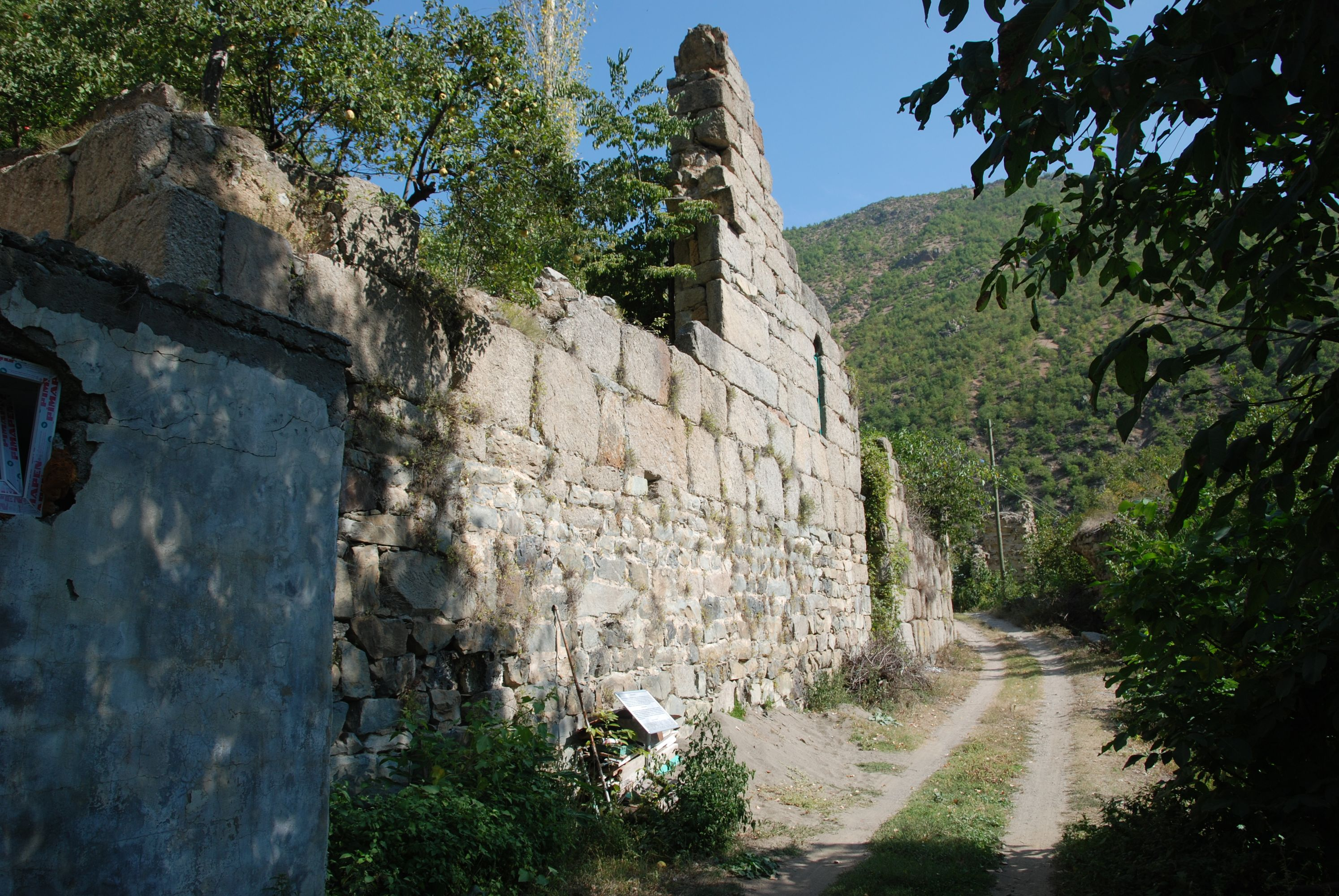 Opiza, Georgian monastery